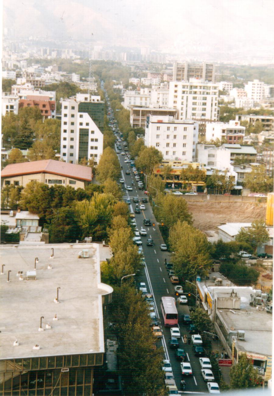 Pasdaran Street in Tehran, seen from the top of Borj-e Sefid, taken by Mani Parsa in 2004.